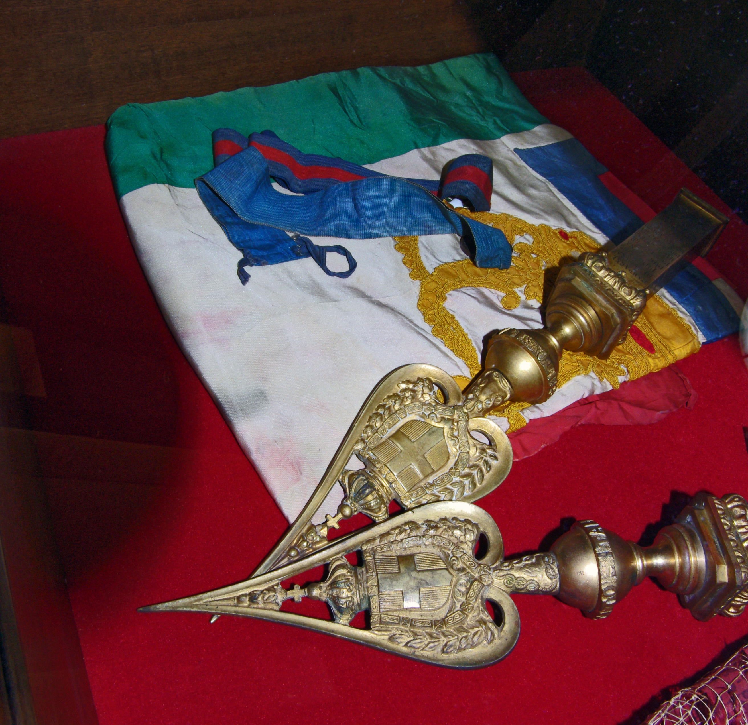 Folded military flag of the Kingdom of Italy, with flagpole tips (finials), from the room of the flags of the Vittoriano (Rome).